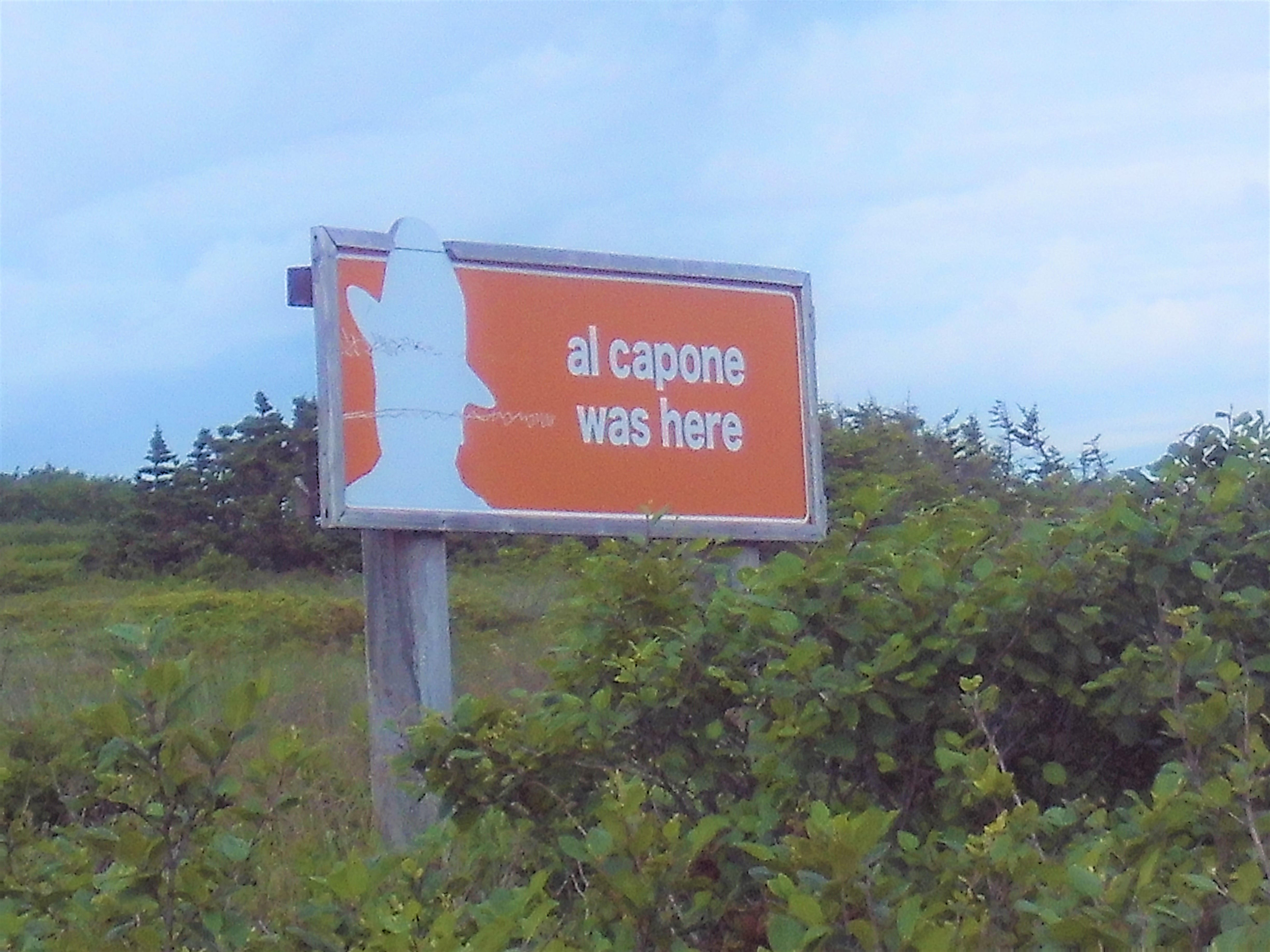 Al Capone sign north of Point May on the Burin Peninsula